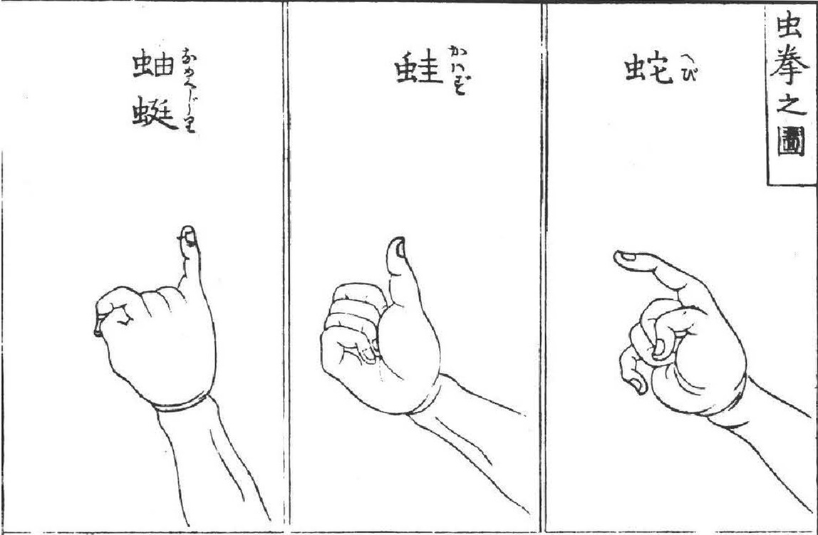 Representation of mushi-ken, one of the earliest rock-paper-scissor or sansukumi-ken games. Published in the Kensarae sumai zue by Yoshinami and Gojaku. From left to right: Slug (蚰蜒 namekuji), frog (蛙 kawazu), and snake (蛇 hebi). The frog defeats the slug, the slug defeats the snake, and the snake defeats the frog